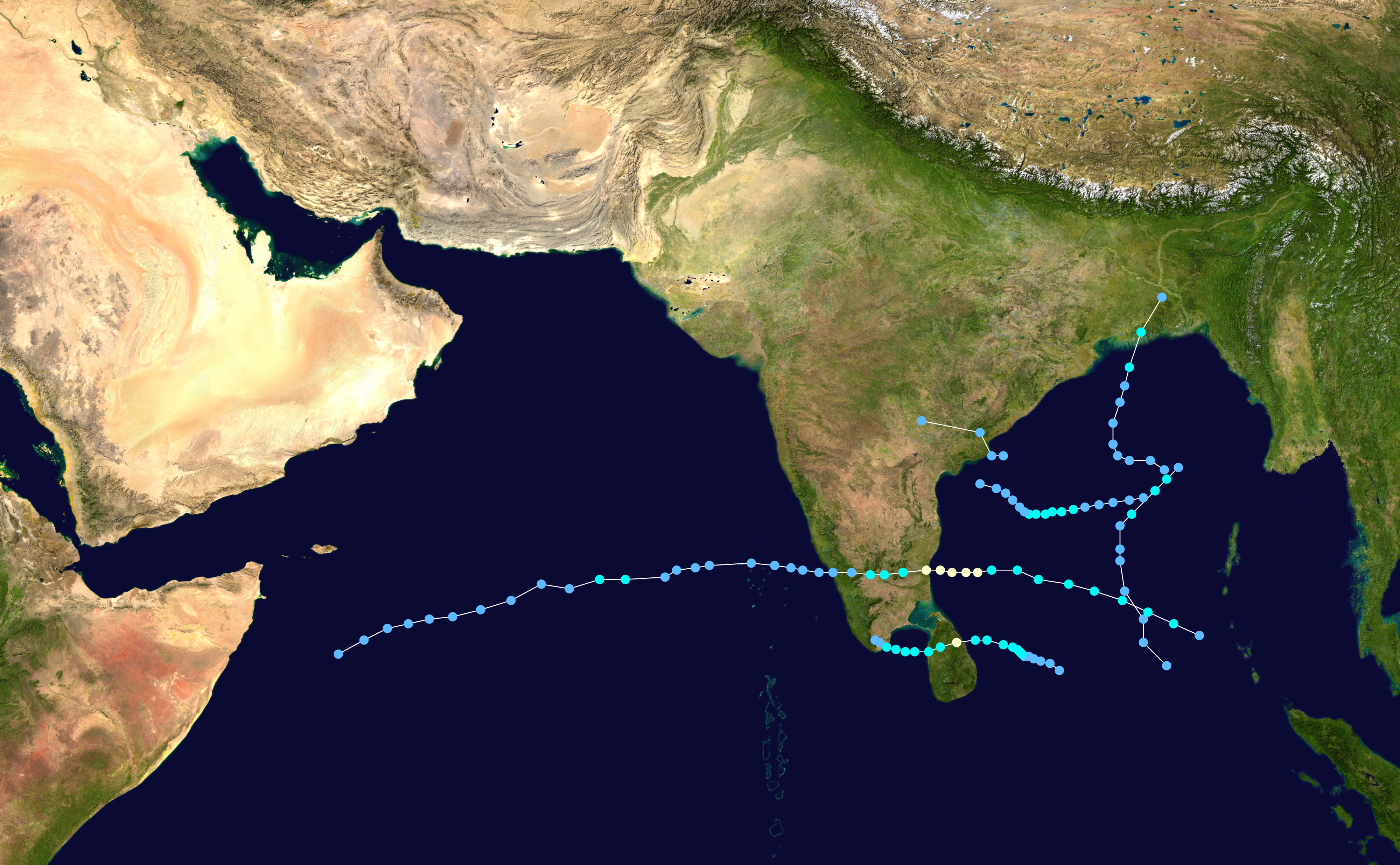 This map shows the tracks of all tropical cyclones in the 2000 North Indian Ocean cyclone season. The points show the location of each storm at 6-hour intervals. The colour represents the storm's maximum sustained wind speeds as classified in the Saffir-Simpson Hurricane Scale (see below), and the shape of the data points represent the type of the storm. Map generation parameters: --res 4000 --extra 1 --negx 0 --dots 0.2 --lines 0.04 --xmin 40 --xmax 100 --ymin 0 --ymax 37 Saffir–Simpson scale Tropical depression≤38 mph≤62 km/h Category 3111–129 mph178–208 km/h Tropical storm39–73 mph63–118 km/h Category 4130–156 mph209–251 km/h Category 174–95 mph119–153 km/h Category 5≥157 mph≥252 km/h Category 296–110 mph154–177 km/h Unknown Storm type Tropical cyclone Subtropical cyclone Extratropical cyclone / Remnant low / Tropical disturbance